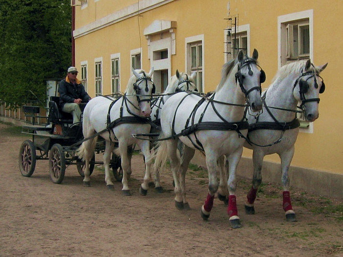 Four kladruber stallions with Petr Vozab